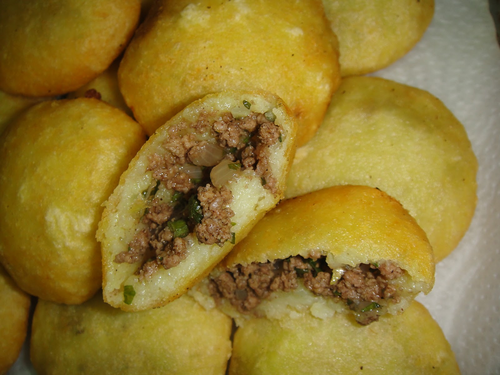 Rice Kubbah